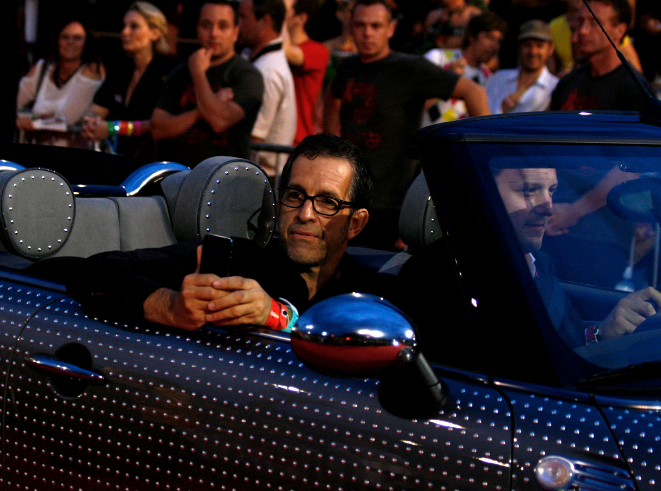 Kenneth Cole on the red carpet of the Life Ball 2010.